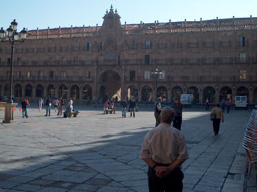 Illustration of an image with an aspect ratio of 4:3 (1:1.33)